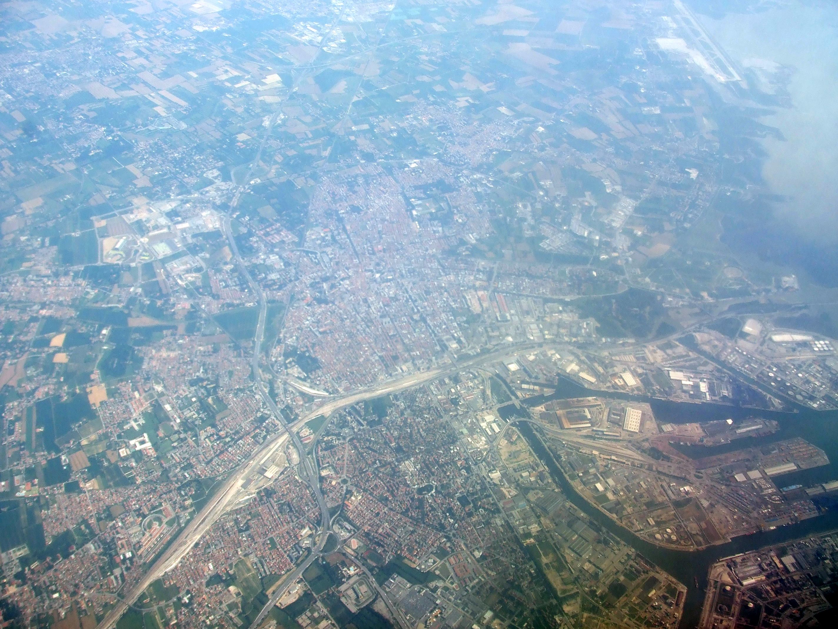 Airphoto of the suburbs of Venice, the area called Mestre (west of the old city). Marco Polo Airport can be seen in the upper right, and in the middle right, the habour areas are visible. The picture is captured during flight, in directly south–north direction, so the top of the picture points towards north.